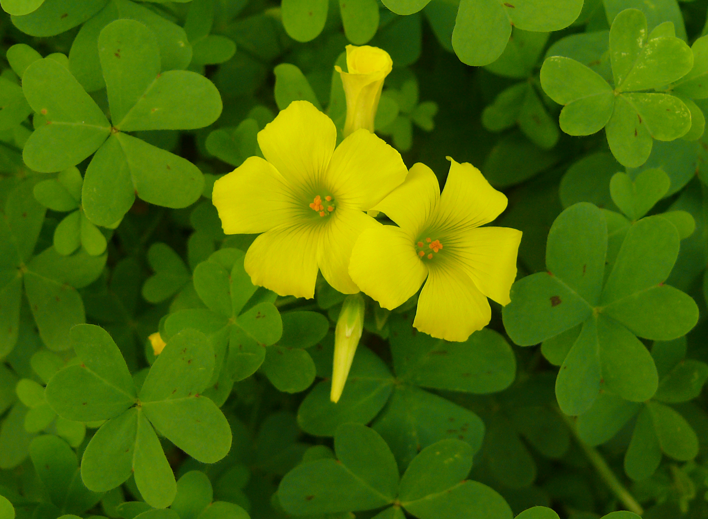 Oxalis pes-caprae